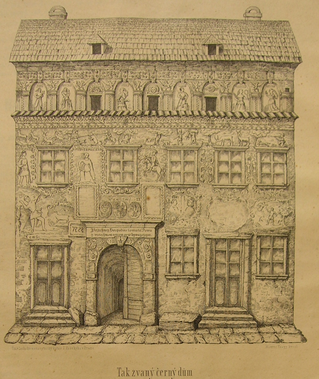 Třebíč. Charles Square. Black House